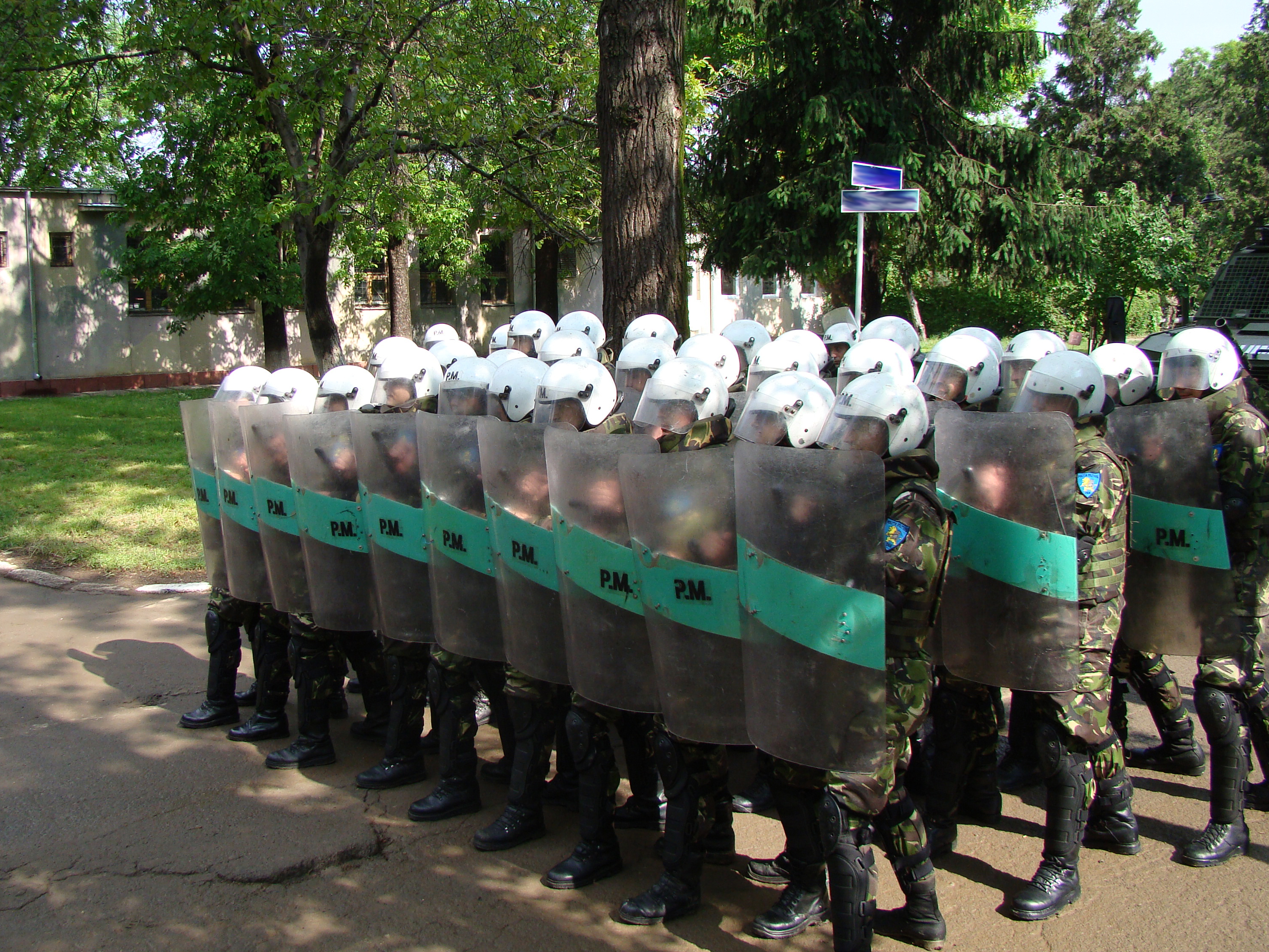 Military Police Day celebrated by the 265th Military Police Battalion of the Romanian Land Forces.